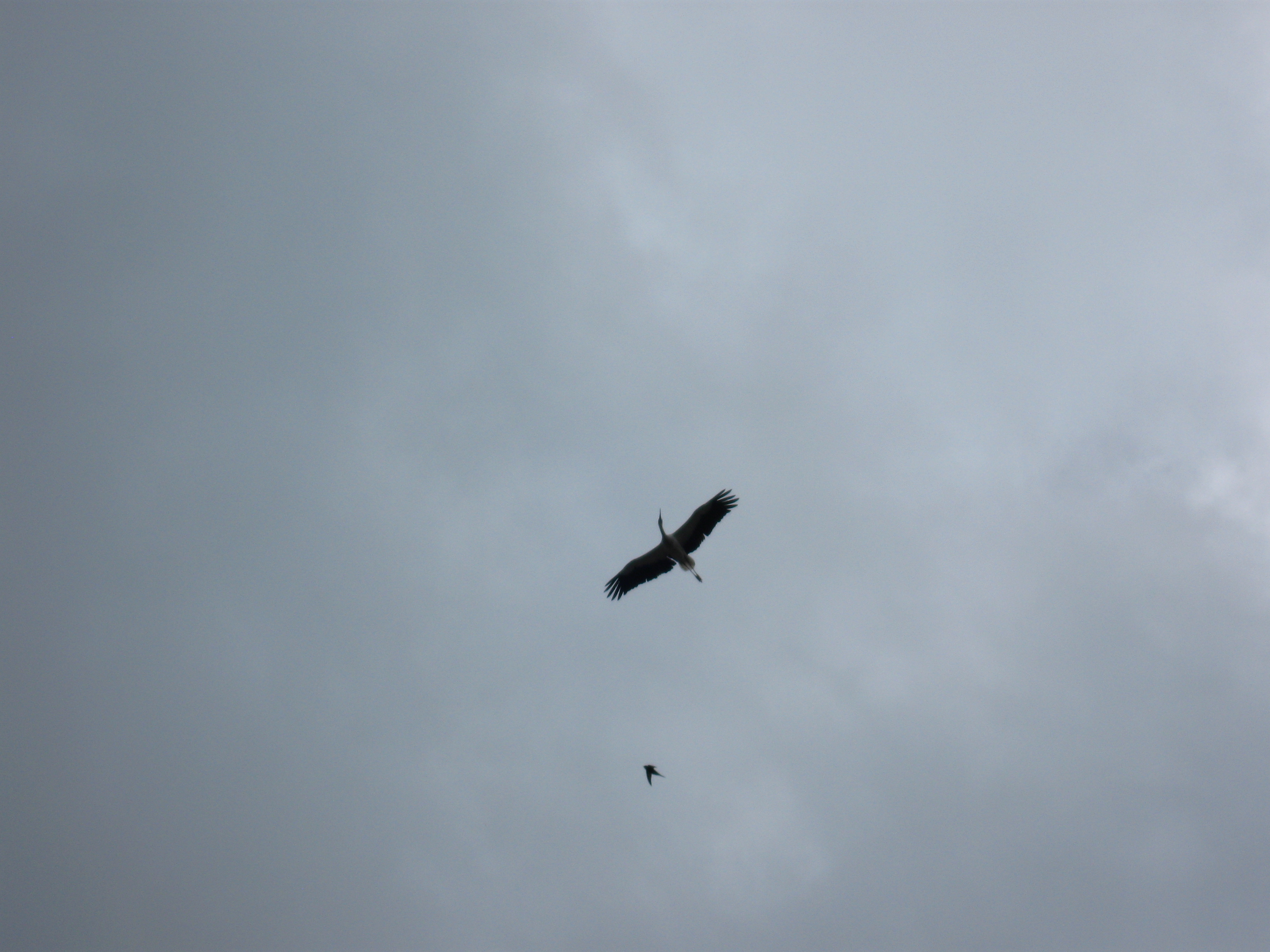 Նկարել եմ Շիրակի մարզի հյուսիսում